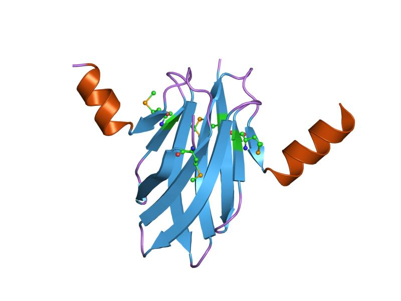 Cartoon representation of the molecular structure of protein registered with 1vpz code.